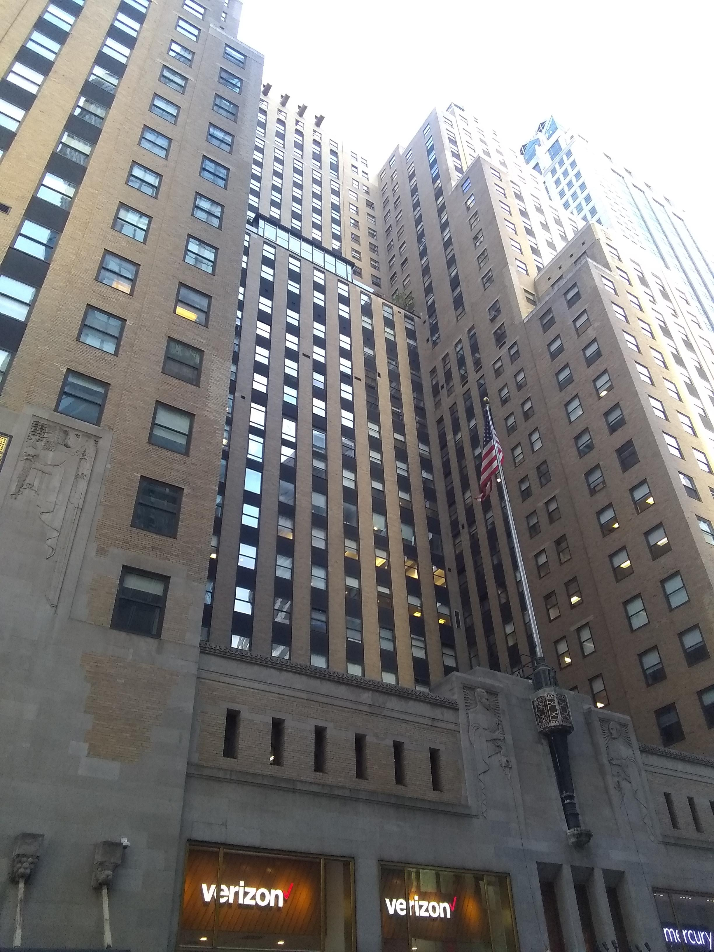 Exterior of the Graybar Building in Manhattan, New York